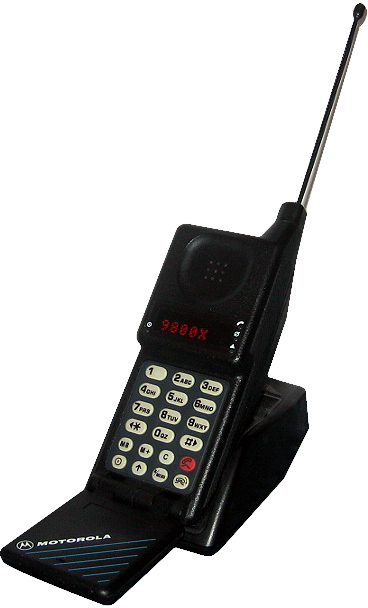 A Motorola MicroTAC 9800X with Red LED display, first introduced in 1989.